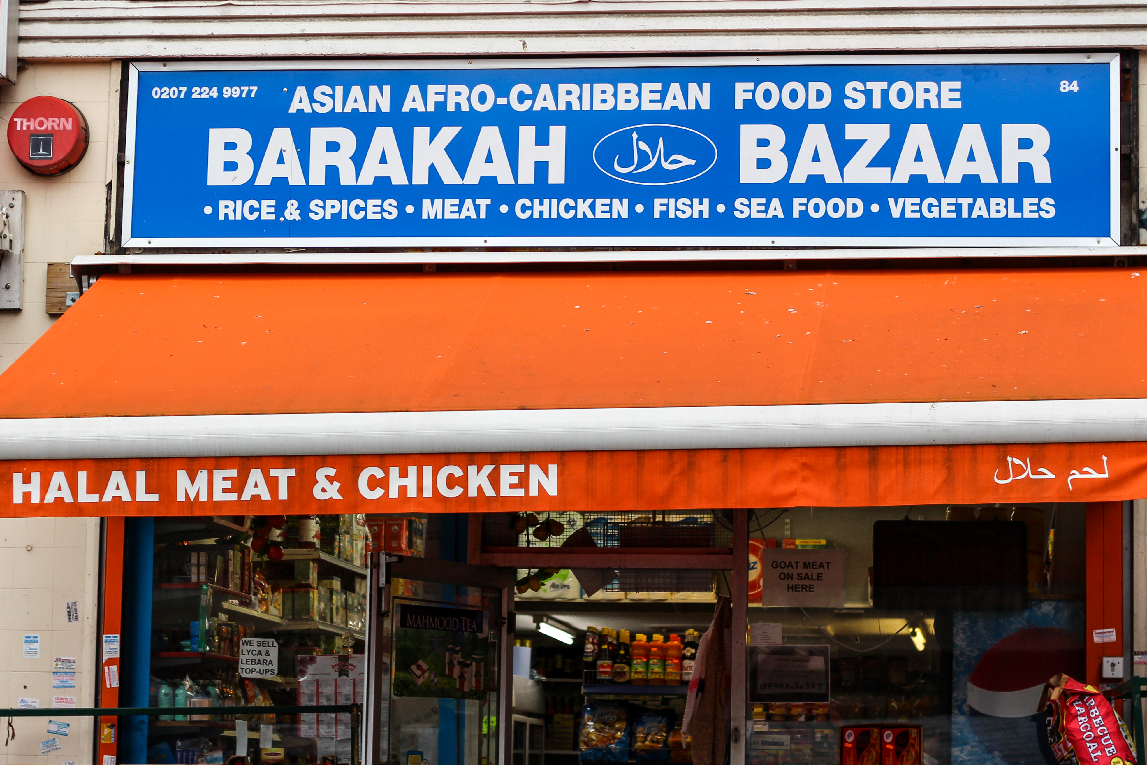 Ethnic food in london diversity. 84 Church St, Marylebone, London NW8 8ET